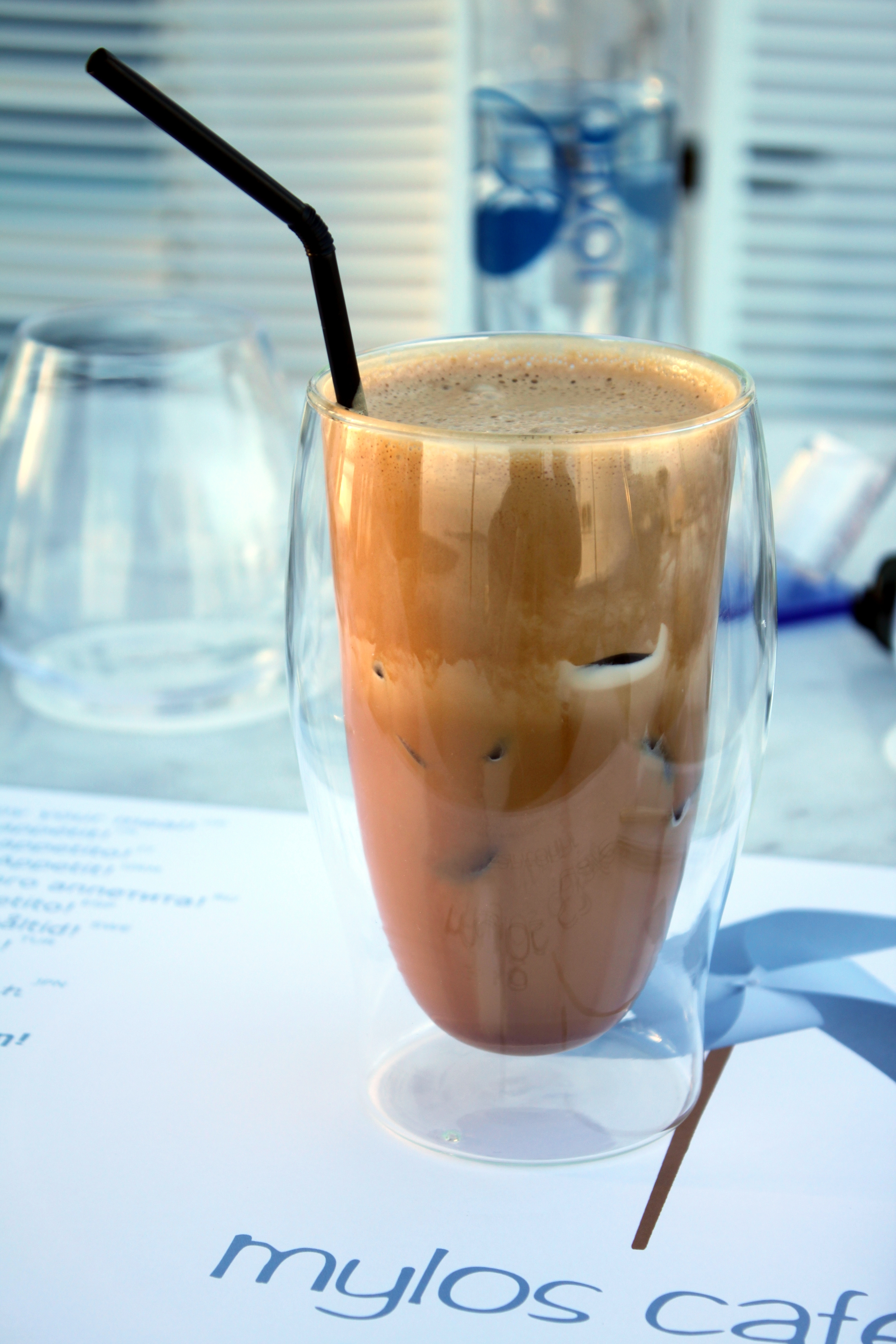 A trendy plastic glass for frappe at Mylos cafe of Firostefani... Glass for frappe